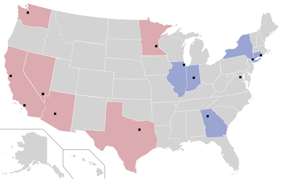 Location of teams in the WNBA, current and former. Western Conference Eastern Conference Symbols: Current location Former location